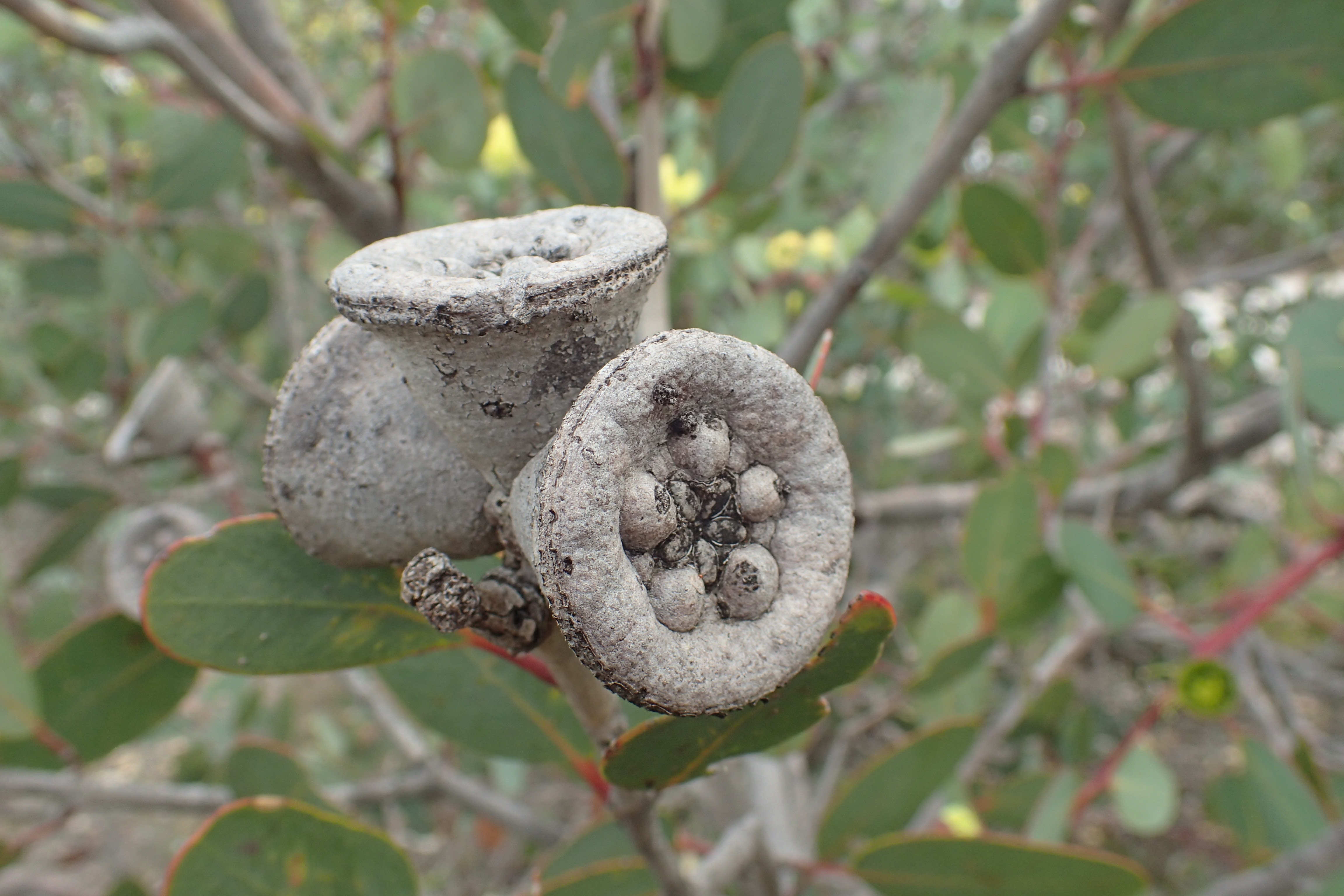 Fruit of Eucalyptus preissiana in Helms Arboretum, near Esperance, W.A.